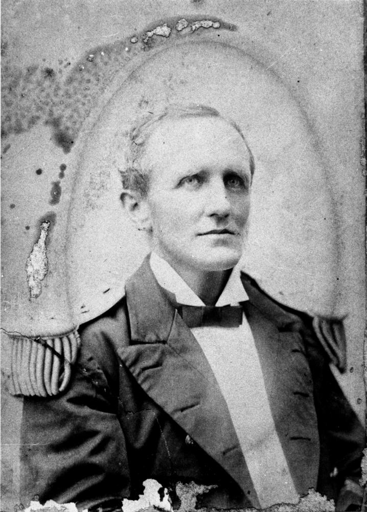 Francis Pringle Taylor, 1888 Francis Pringle Taylor was appointed Executive Officer of the ship HMQS 'Gayundah' on 30 March 1885. In November 1888, following the dismissal of Henry Townley Wright, Boyd Morehead appointed Taylor Acting Senior Naval Officer and Superintendant of the Queensland Marine Defence Force. Taylor had been placed under arrest by Wright on board the 'Gayundah' in October 1888 when Morehead ordered him to hand command of the ship over to Taylor. Taylor was confirmed in the positions and was succeeded by Walton Drake on 1 November 1892. Taylor had been an officer of the Royal Navy prior to his appointment to the Queensland Service. (Information taken from Blue Book of Queensland, 1888, 1893). Inscription on back reads: 'With Captain Taylor’s very kind regards 1893'.